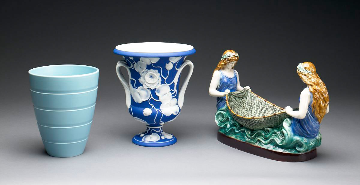 Three items produced at the Wedgwood factory. From left to right: a a light blue vase designed by Keith Murray, a blue wine cooler with white flowers, and a centerpiece known as "Low Naiad Centre" featuring two female naiads holding a net.